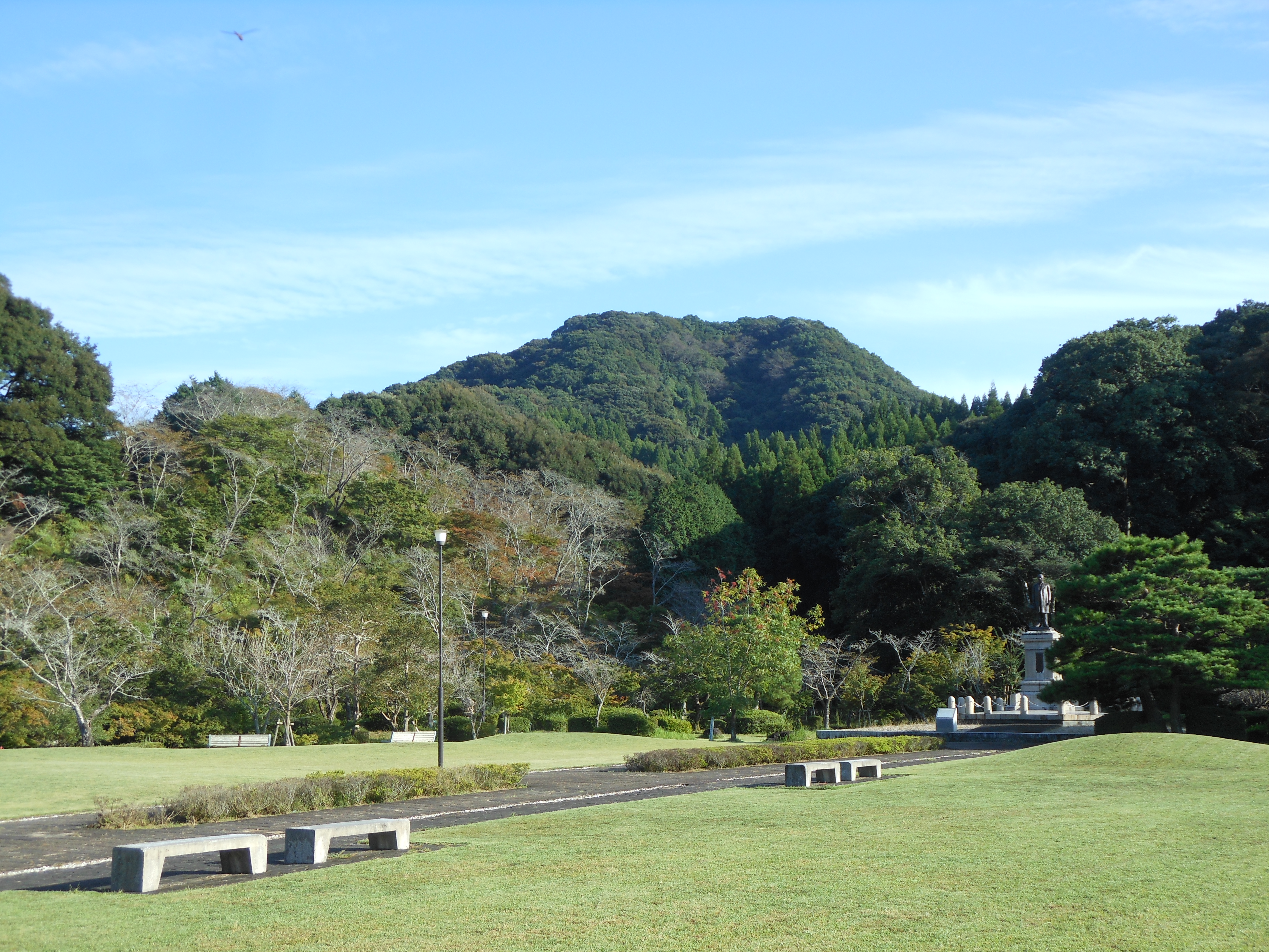 A garden in autumn, and a statue at Seikei Park.